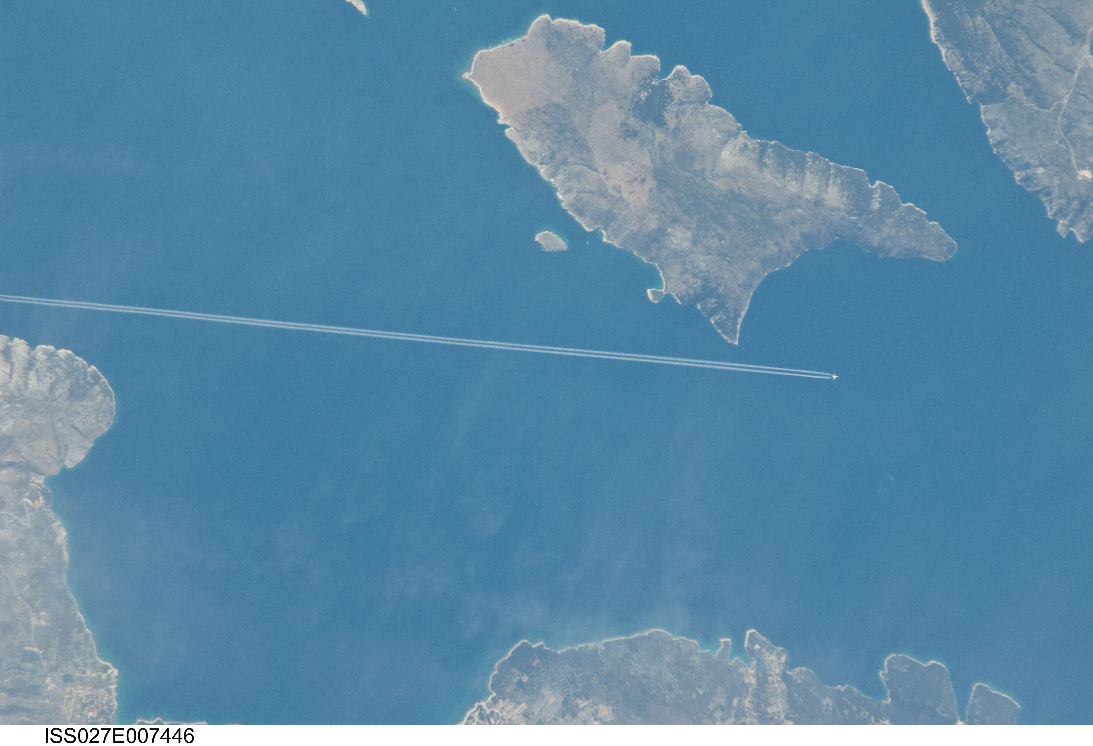 Plavnik and Mali Plavnik